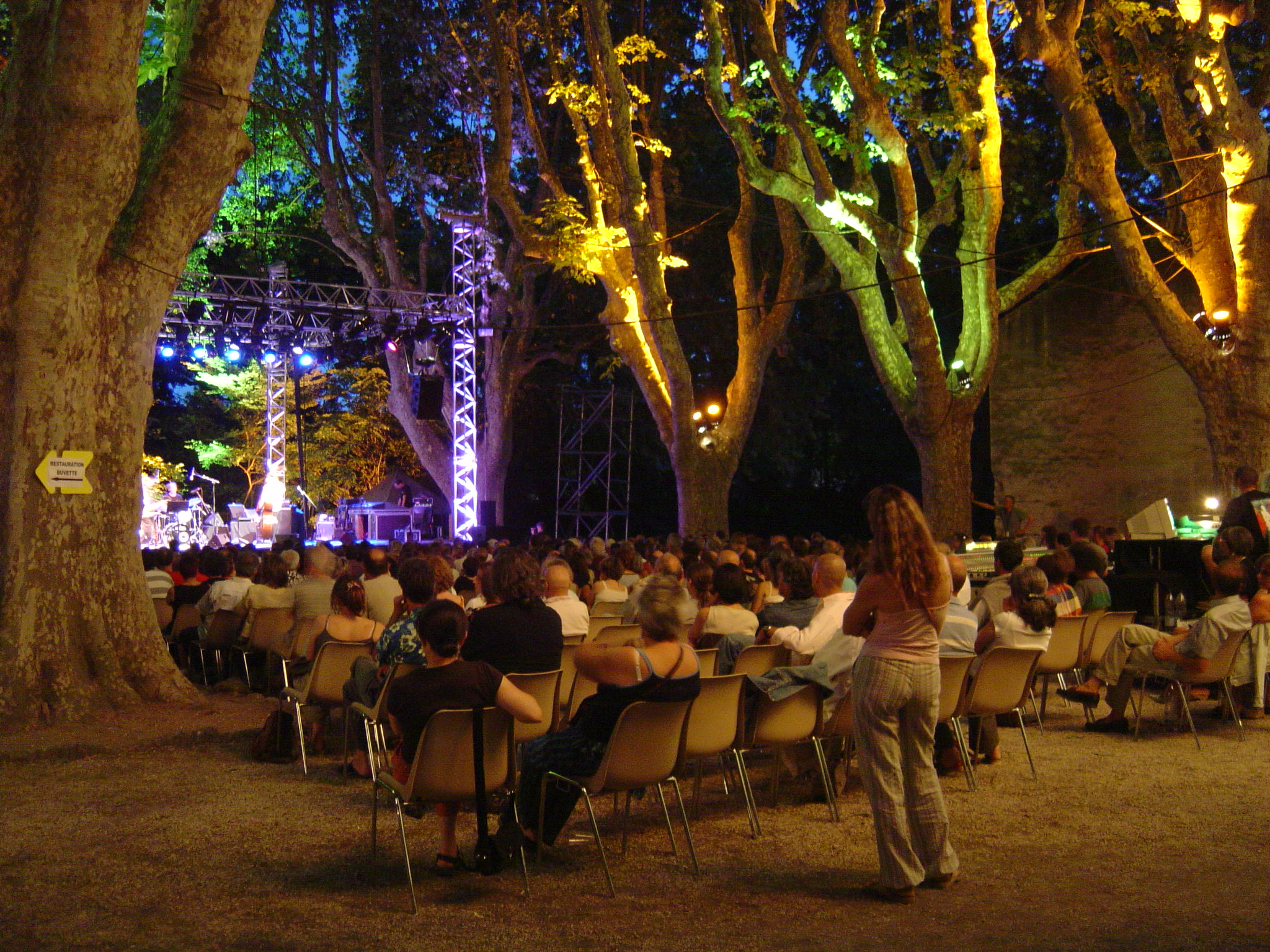 Charlie Jazz Festival 2005 : The main stage under the planes, in Domaine de Fontblanche (Vitrolles, France).